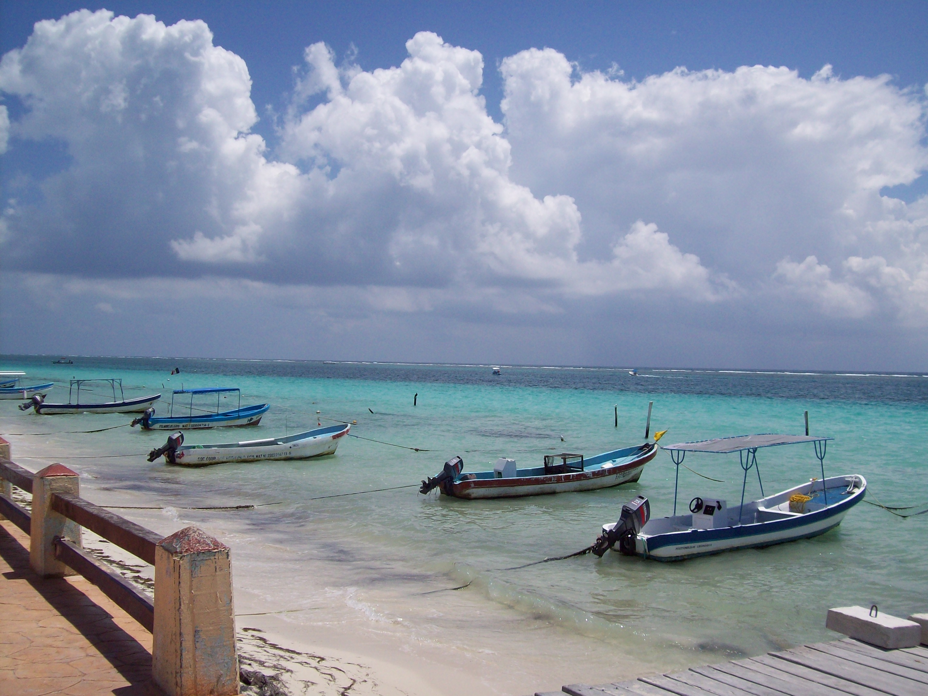 Boats in Puerto Morelos